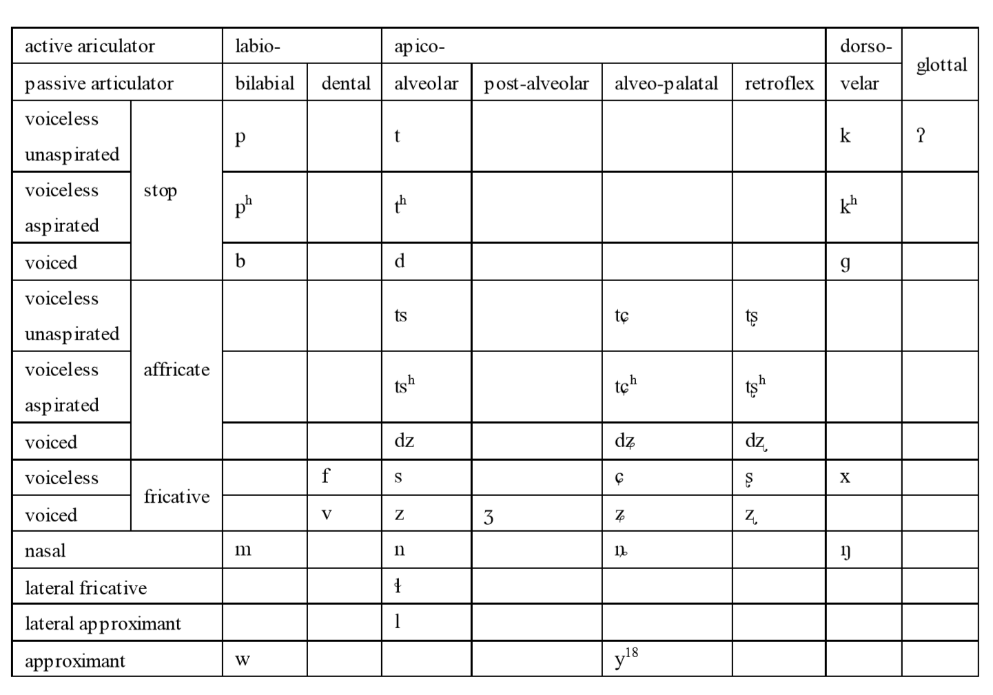 Table of the consonants used by the Ersu people age 50 and younger